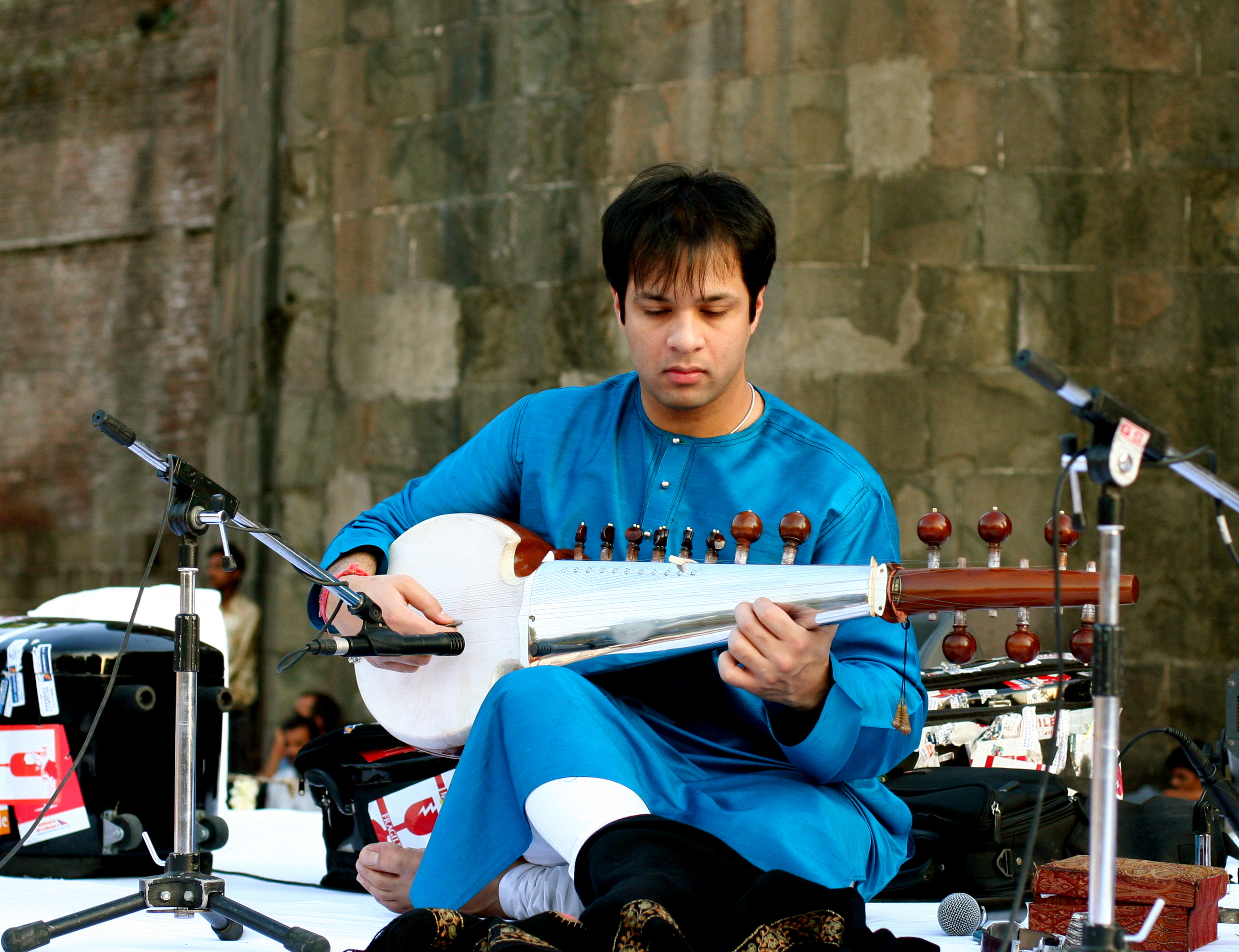 Amaan Ali Khan at the Pune Festival 2007